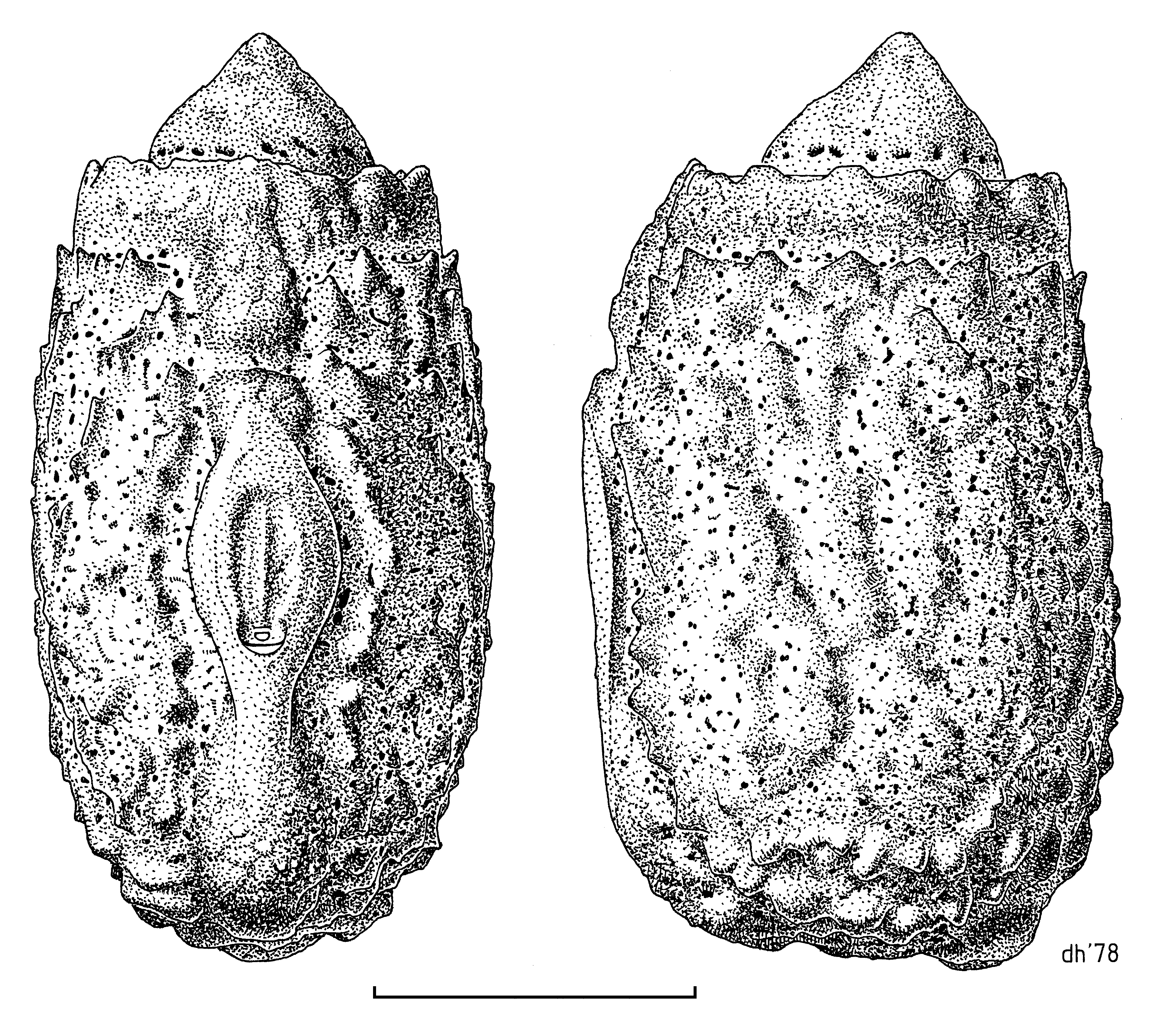 (Phasmatodea: Phasmidae) Clitarchus hookeri egg illustrated by Des Helmore.